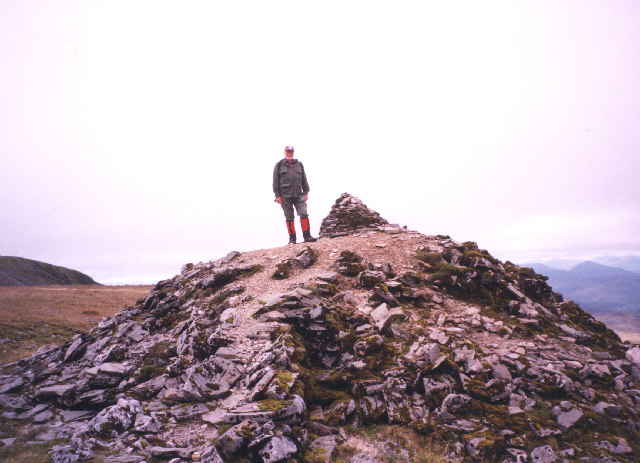 Mad Meg's Cairn. According to local legend this mysterious cairn marks the grave of an 18th Century suicide, who was denied burial in the local kirkyards. Her family buried her high on Creag Meagaidh. The old stone walls of the cairn have collapsed, showing that a considerable volume of sandy soil had gone into the making of the cairn.